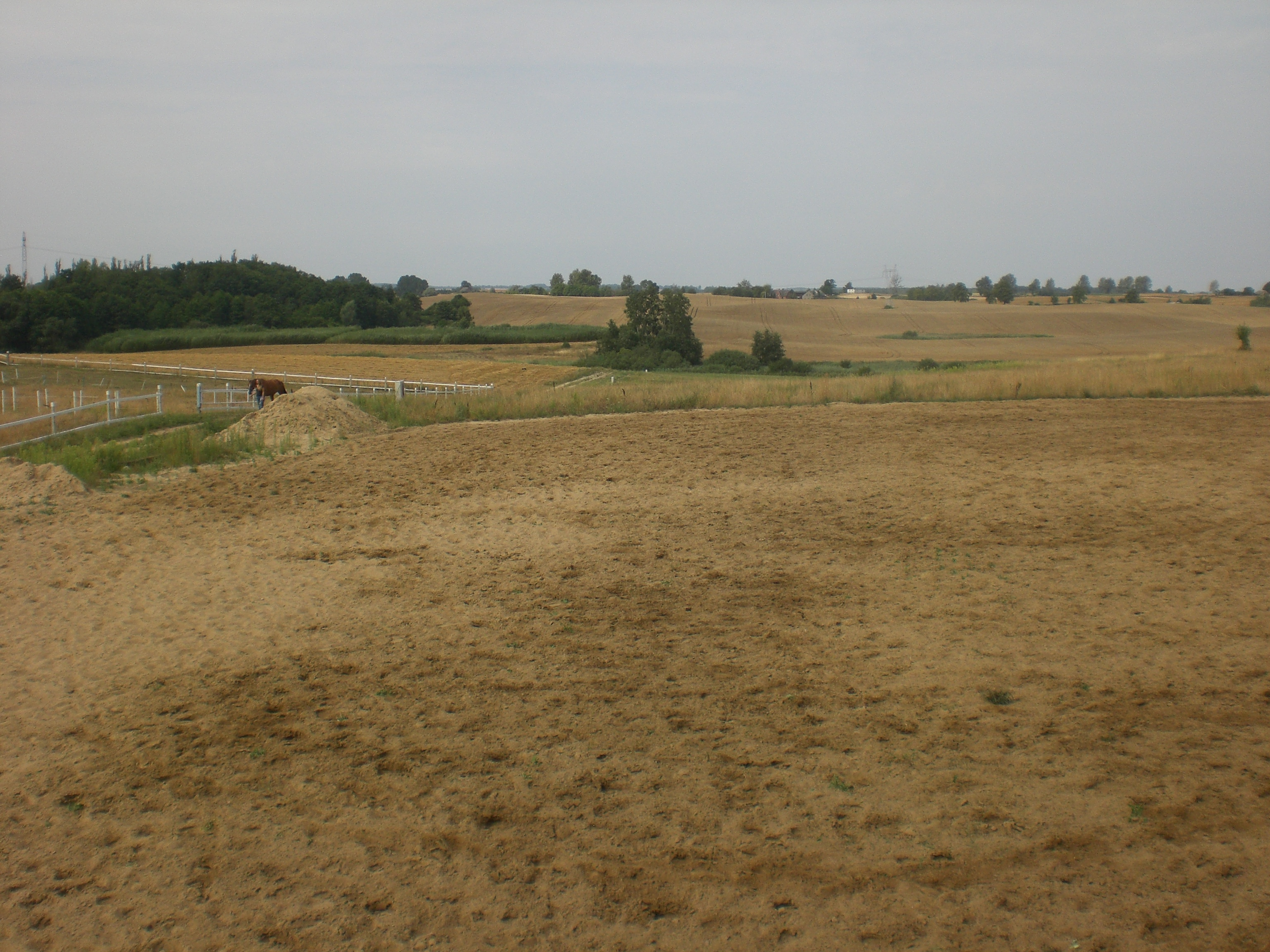 Damaszka, Poland